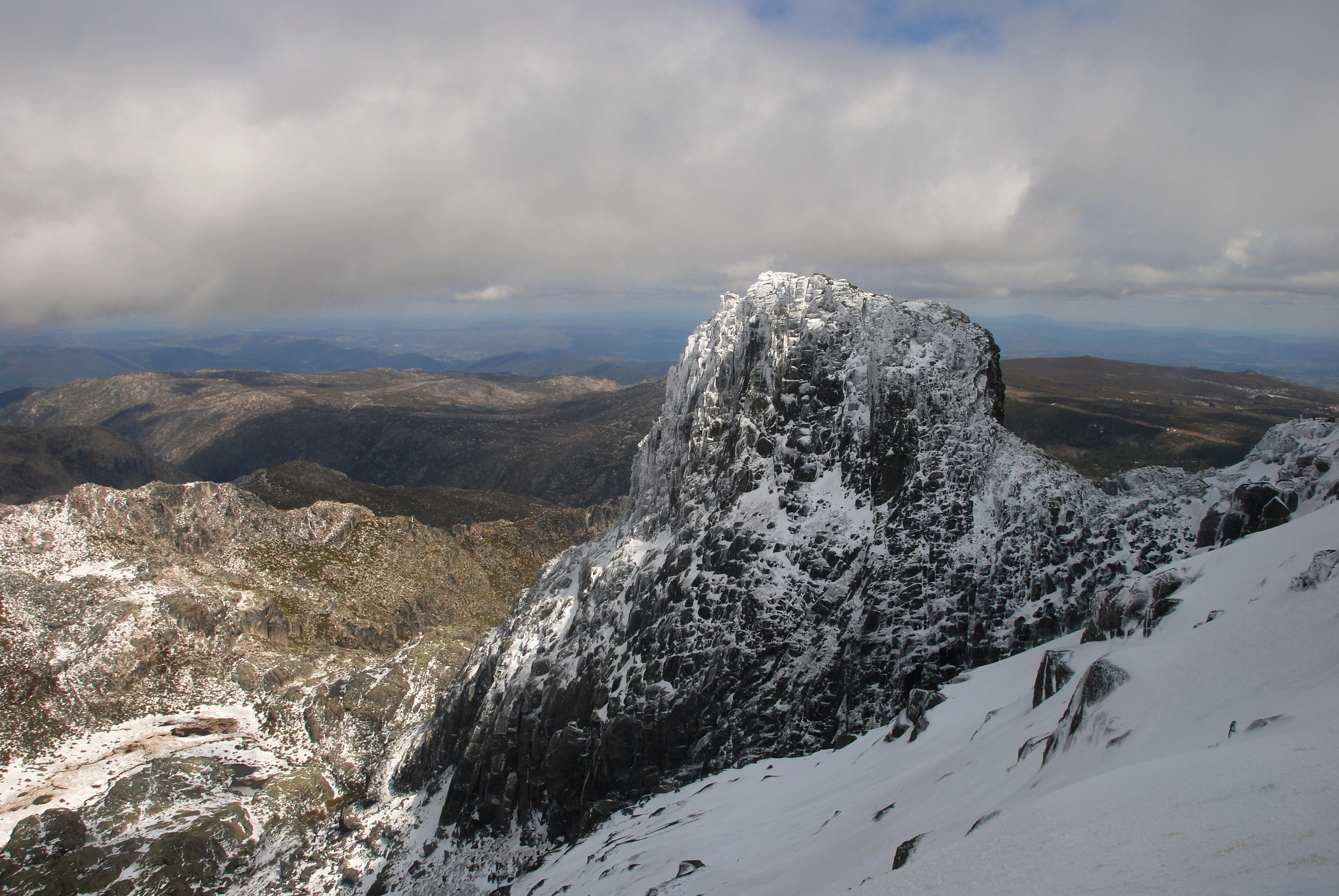 Serra da estrela, Portugal. Cântaro Magro, a nunatak 1928m high